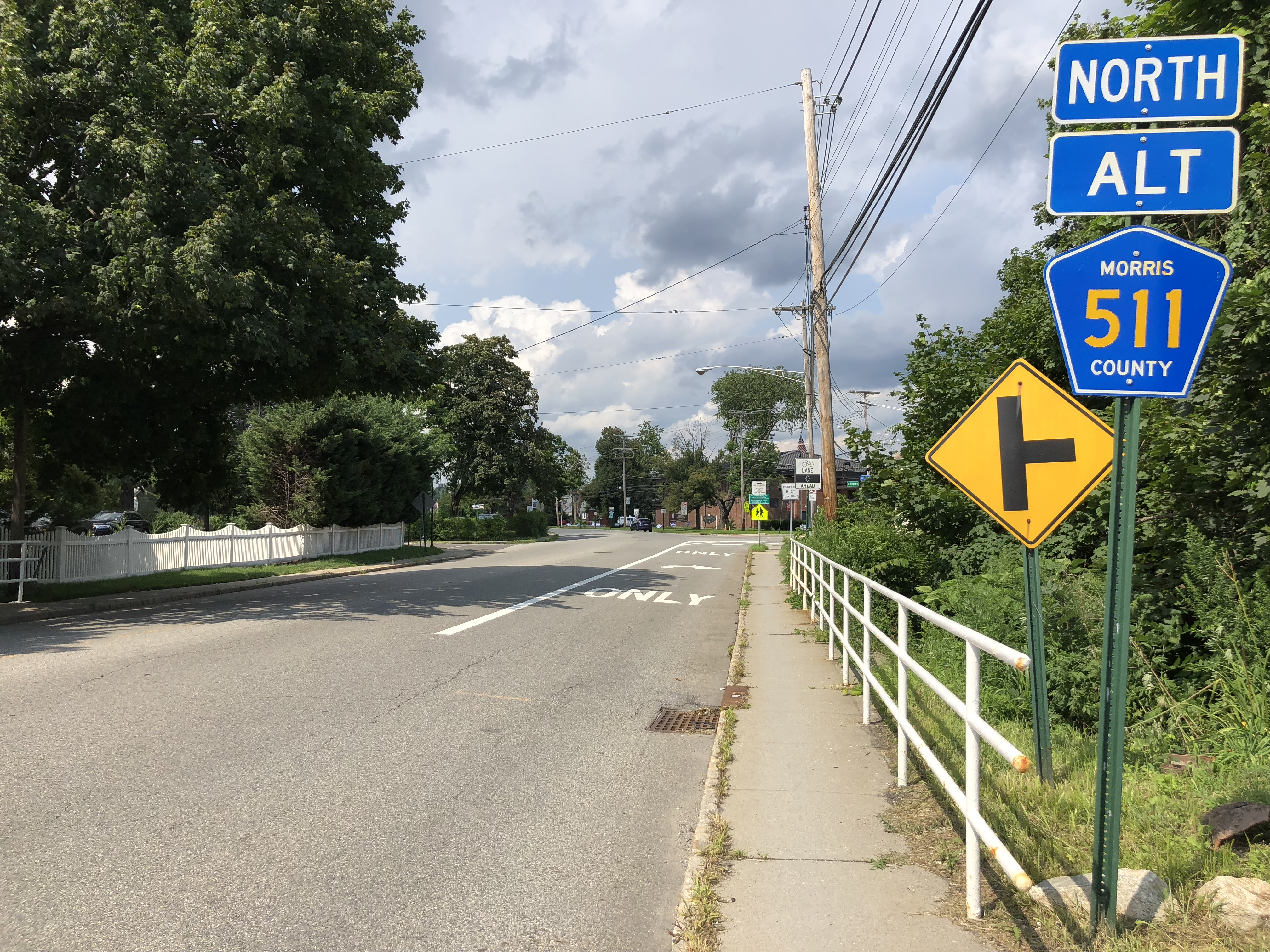 View north along Morris County Route 511 Alternate (Newark-Pompton Turnpike) just north of New Jersey State Route 23 in Riverdale, Morris County, New Jersey